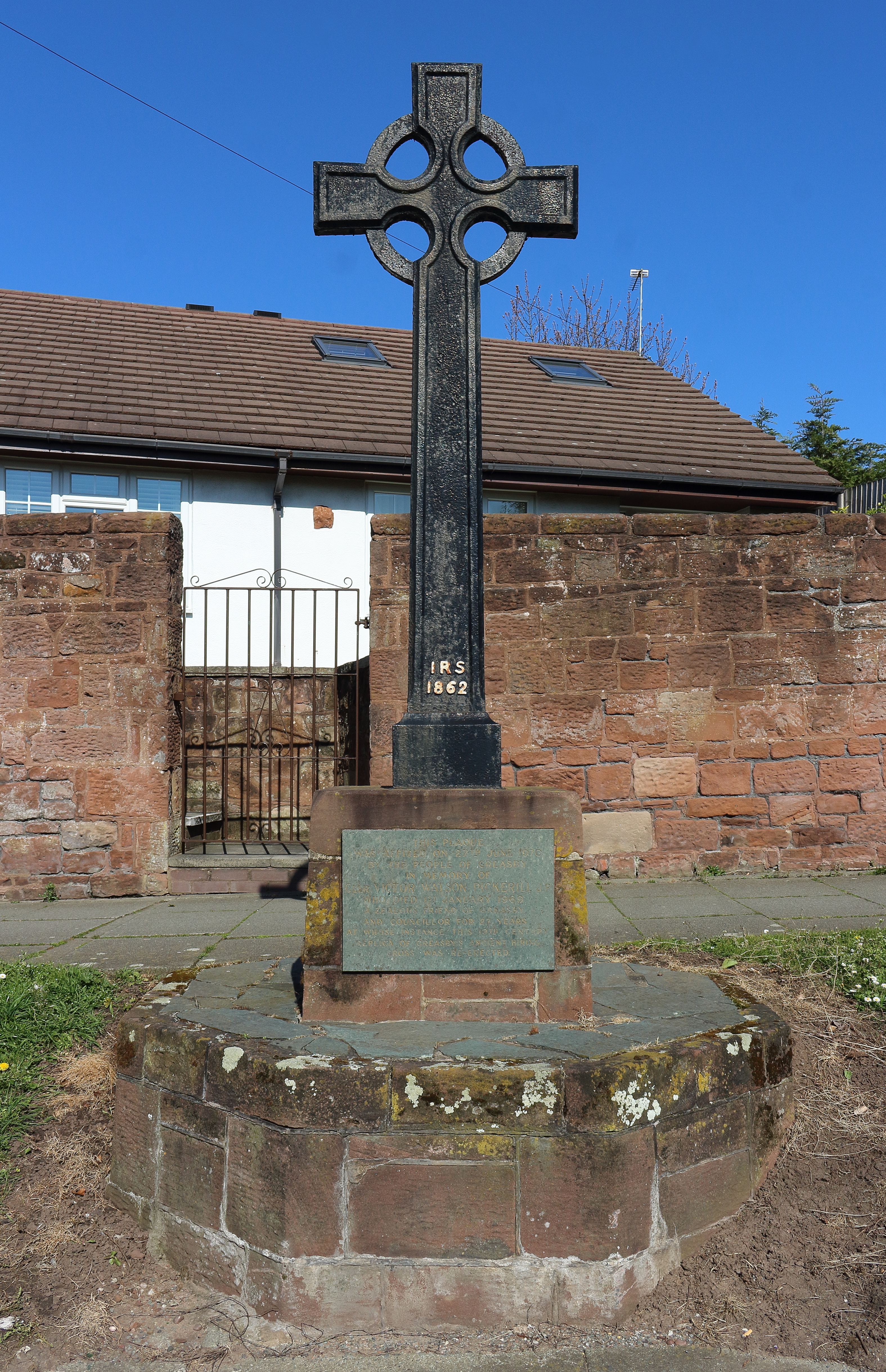 View from close-up